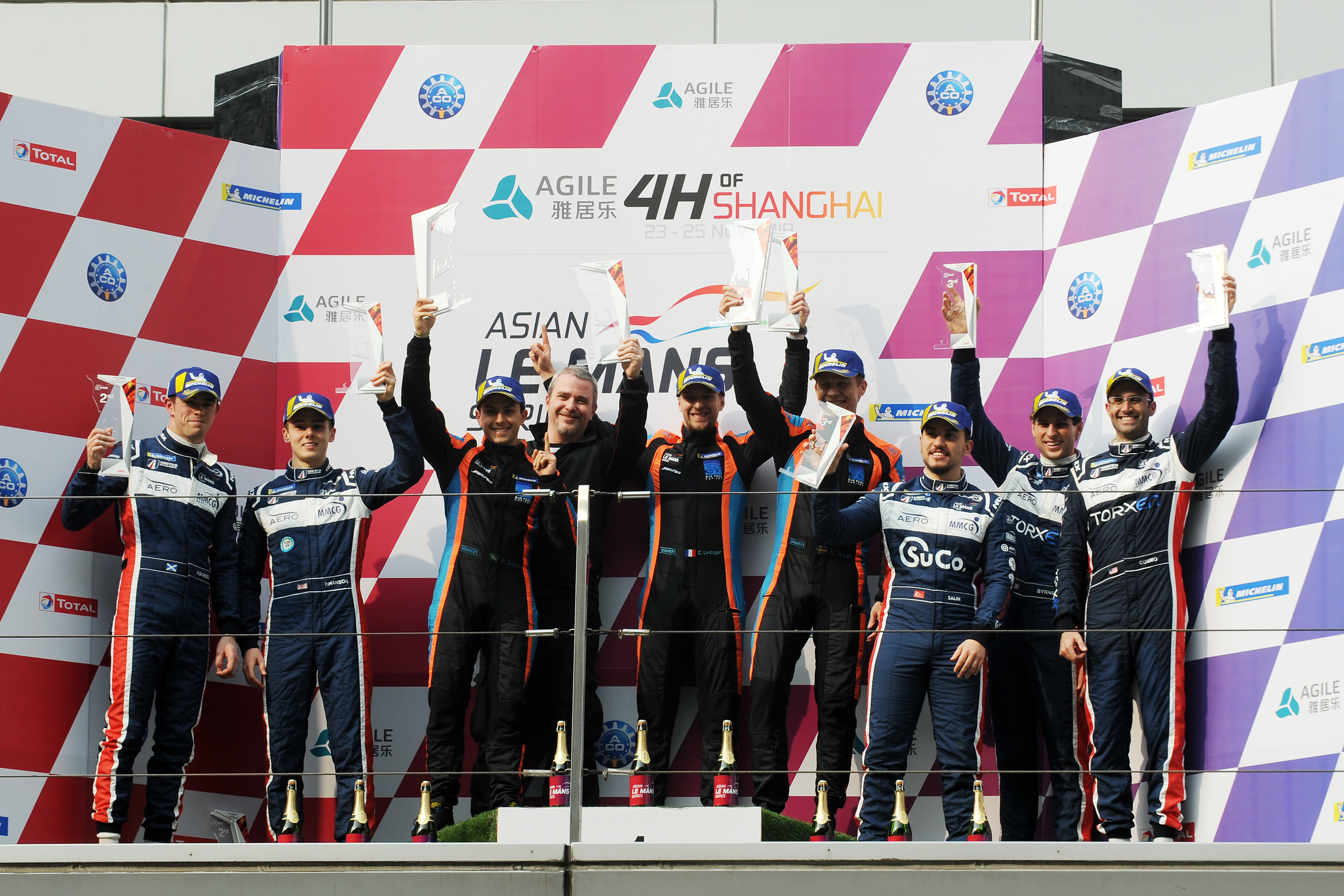 Asian Le Mans Series - 2018 4 Hours of Shanghai - Podium